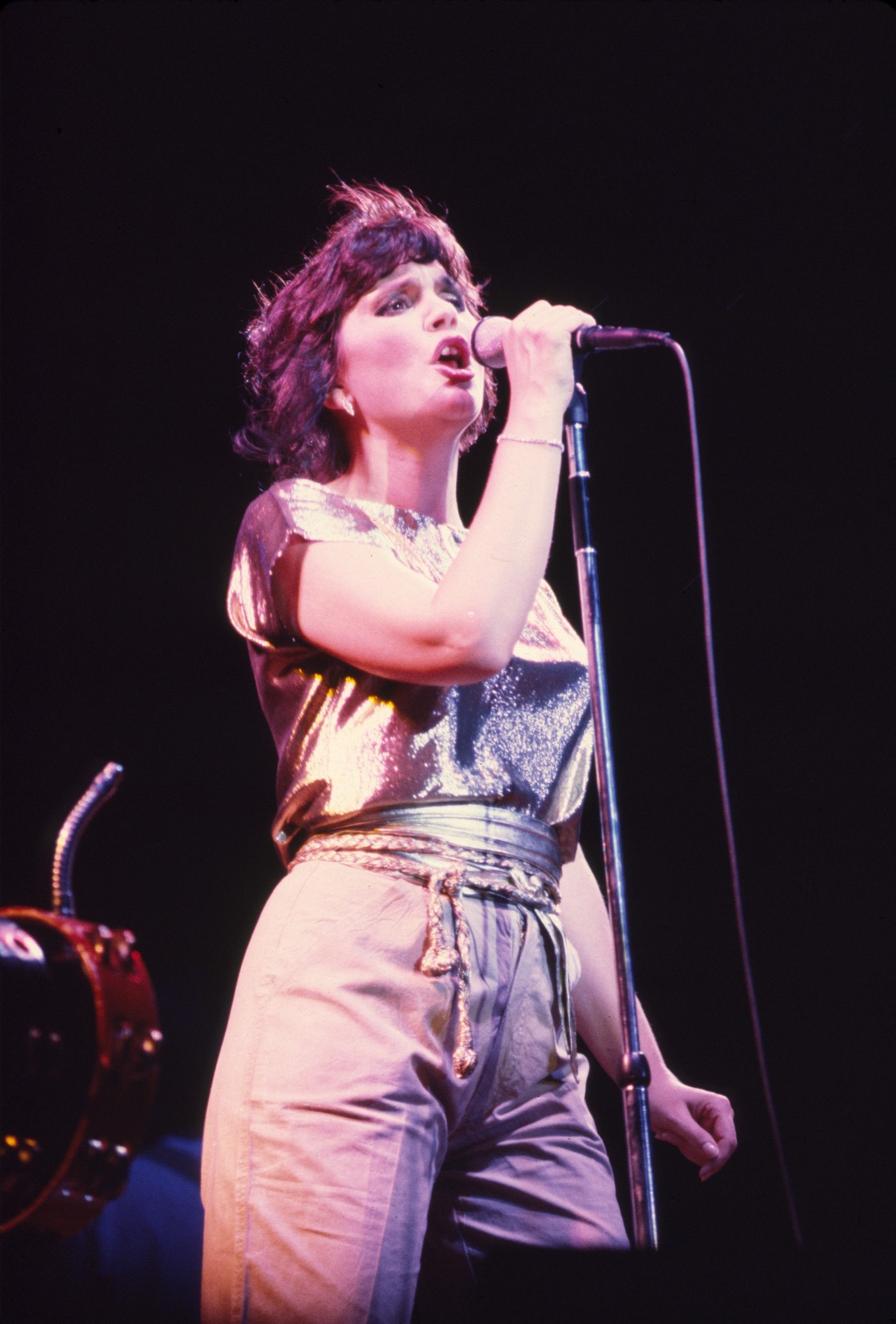 Linda Ronstadt performs at Six Flags Over Texas in Arlington, Texas, August, 1981.